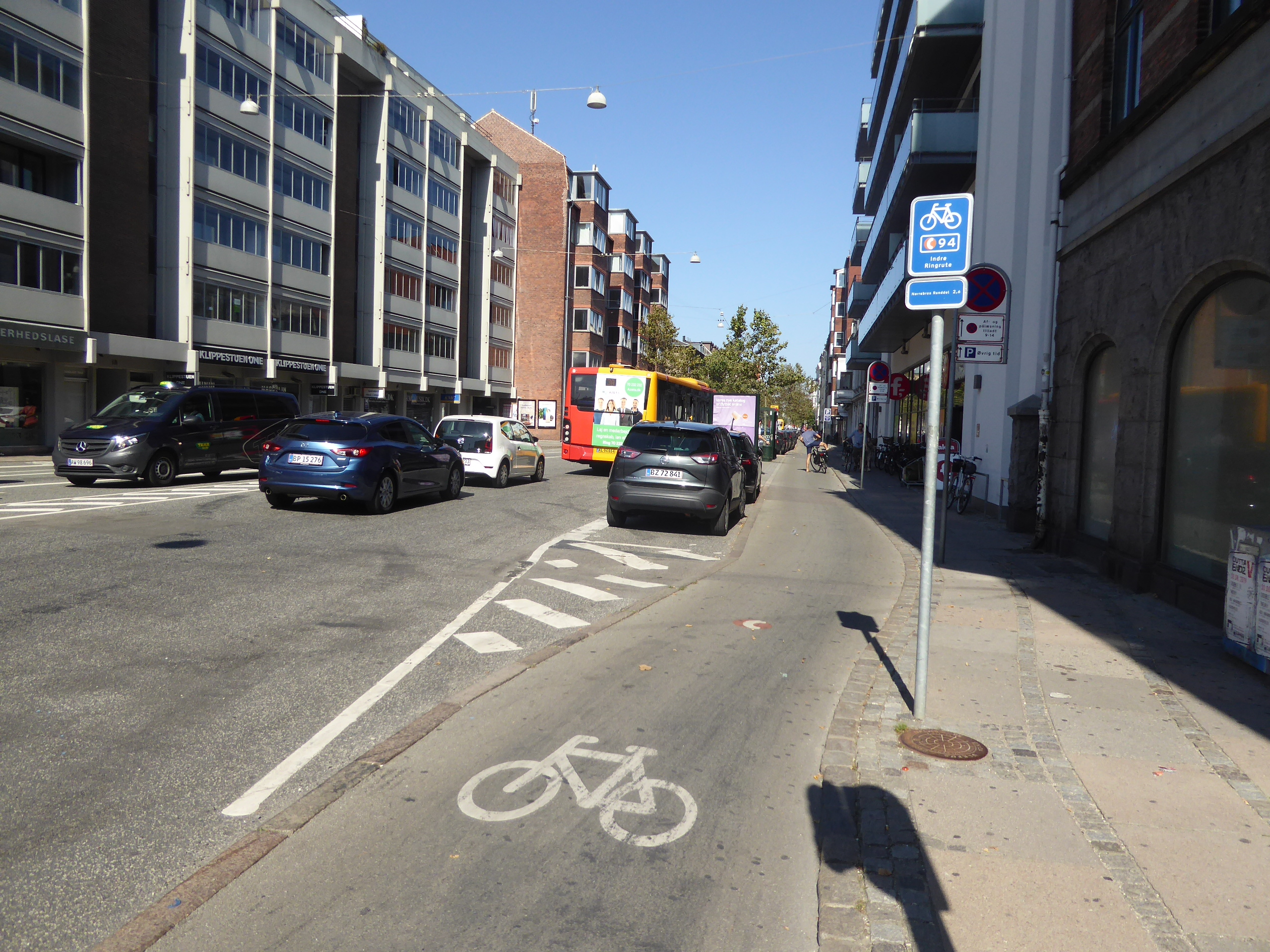 The super bikeway C94 Indre Ringrute on H.C. Ørsteds Vej in Frederiksberg in Copenhagen.